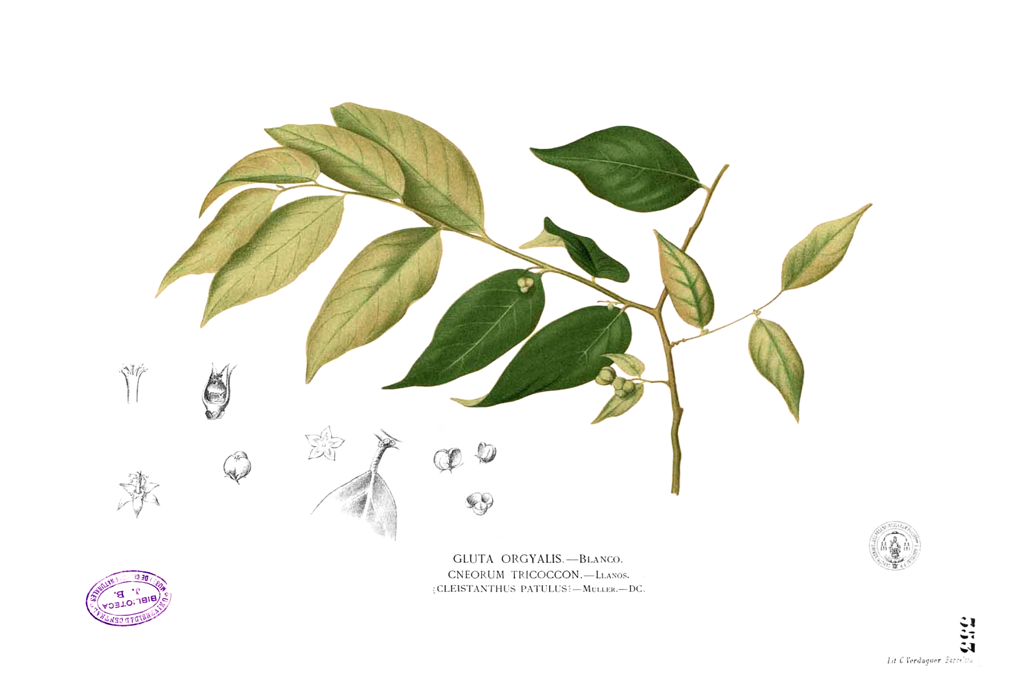 Plate from book